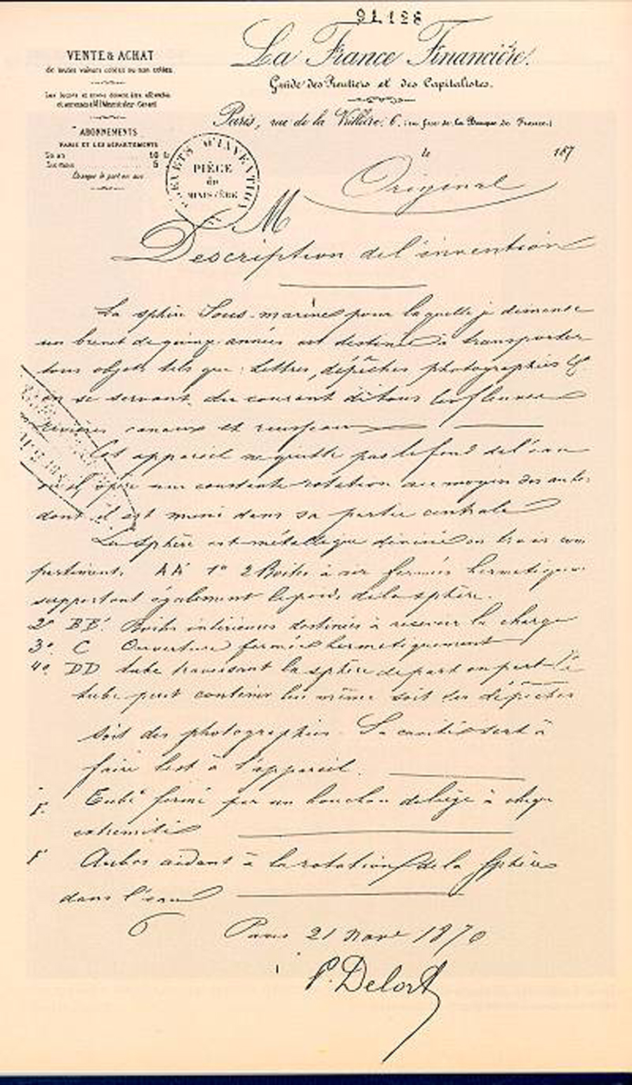 Text of Pierre-Charles Delort for the patent of a submarine sphere then called "boule de Moulins'and used to transport mail during the siege of Paris of 1870